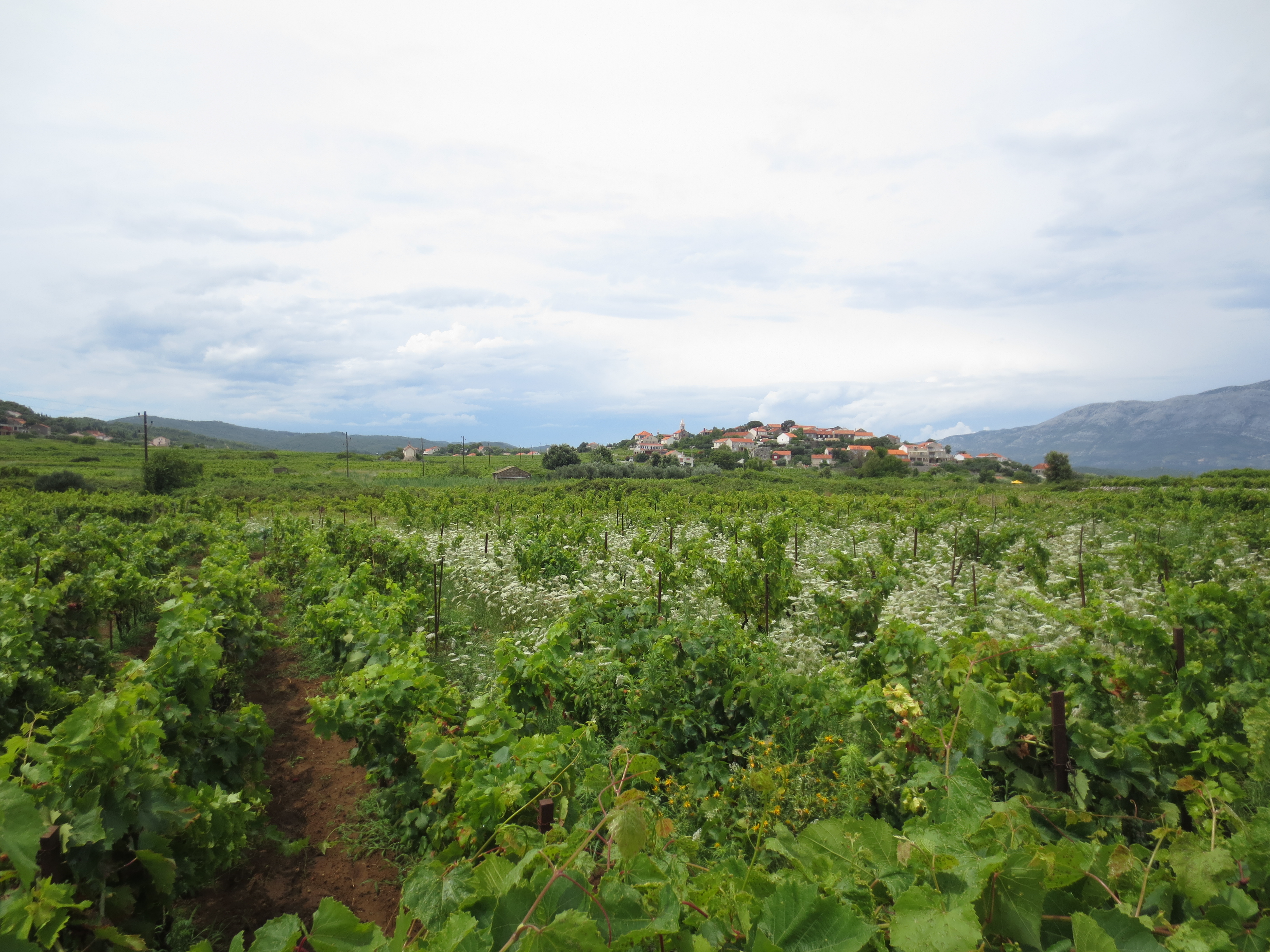 Lumbarda Wineyards